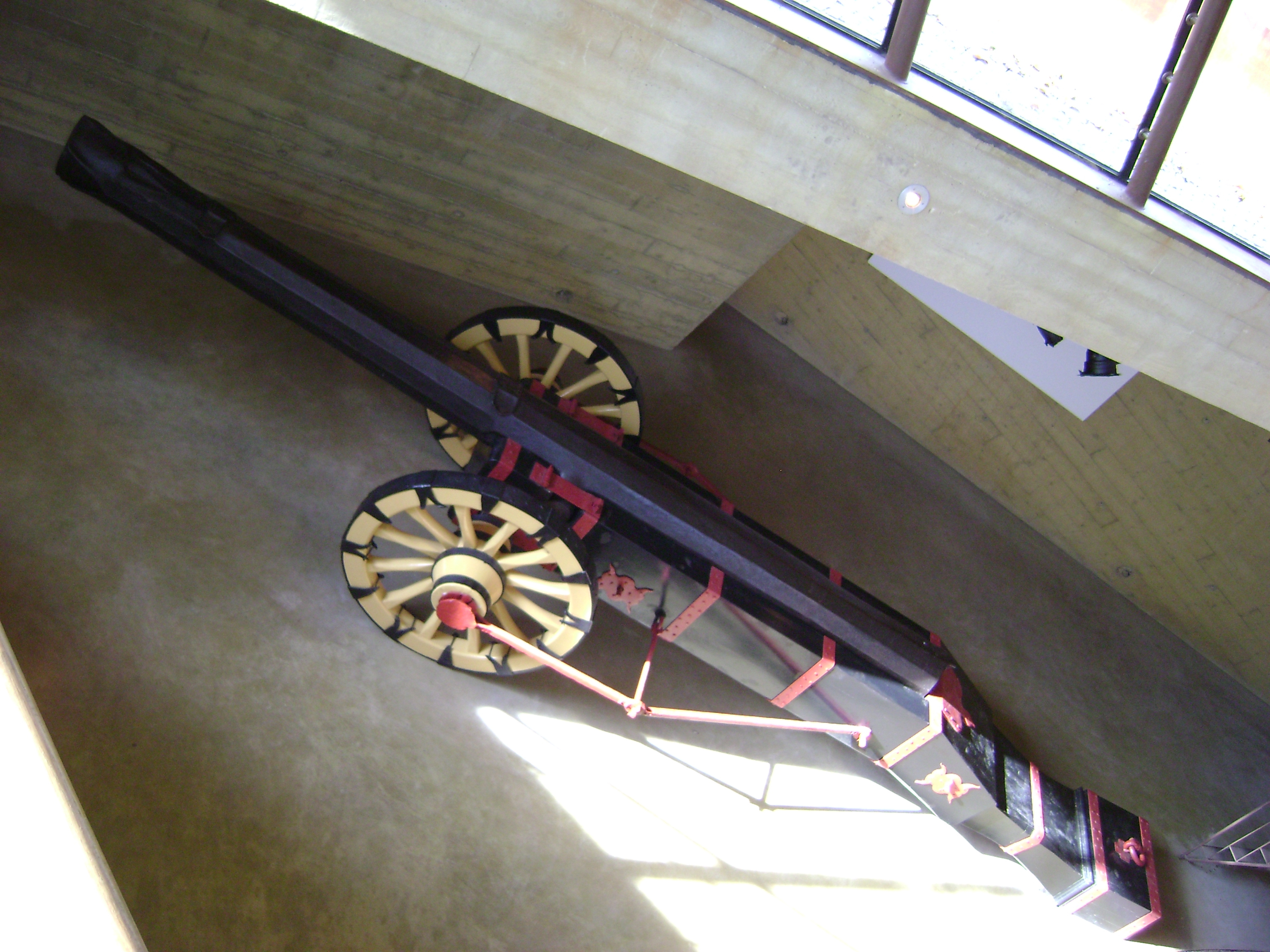 "Boze Griet" or "Stuerghewalt", a 170 mm wrought iron cannon made in 1511 for the city of 's-Hertogenbosch by the German forger Johann Fick von Seghem (Jan Fyck van Zeghen), as it today resides in the subterranean Bastionder museum. Due to a bore defect, it never fired a shot in anger. The barrel has a length of 634 centimetres.